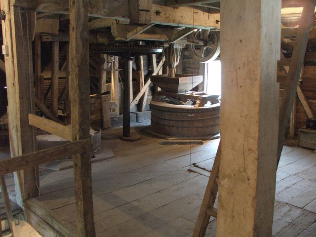 The stone floor of the watermill at Charney Bassett, Oxfordshire